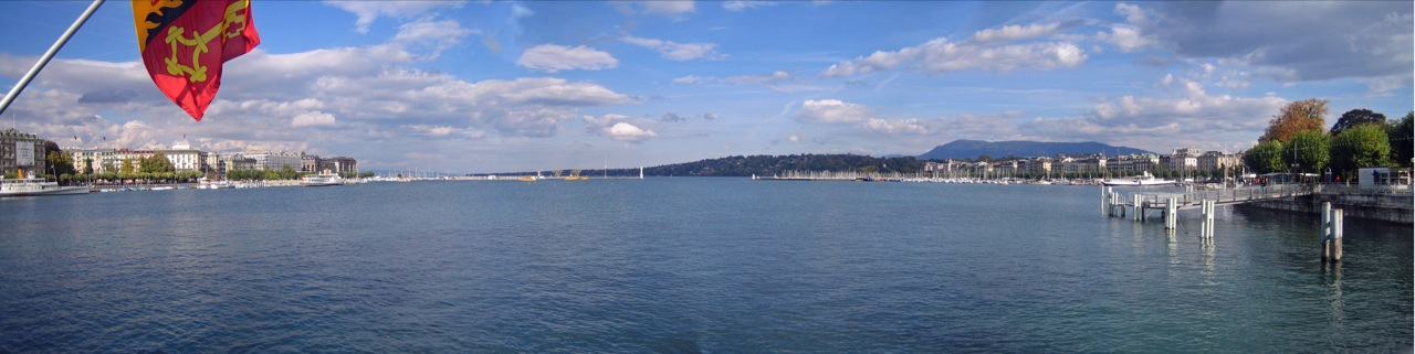 Bridge was bouncing around as people walked past, so tried to catch the down-stroke on each shot!